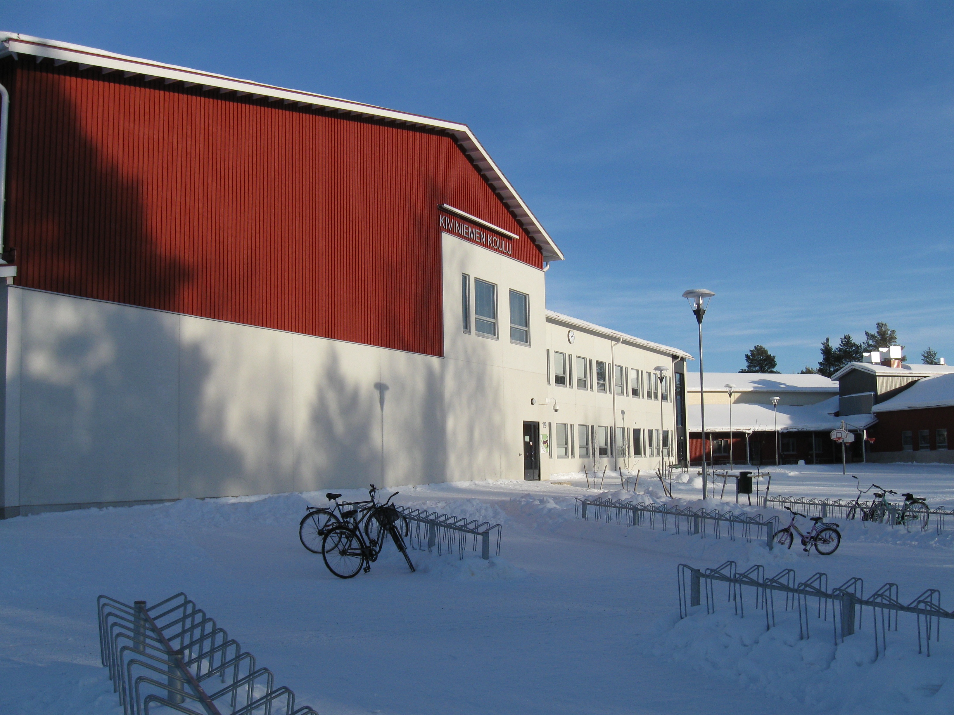 The Kiviniemi school in Kello, Oulu, Finland